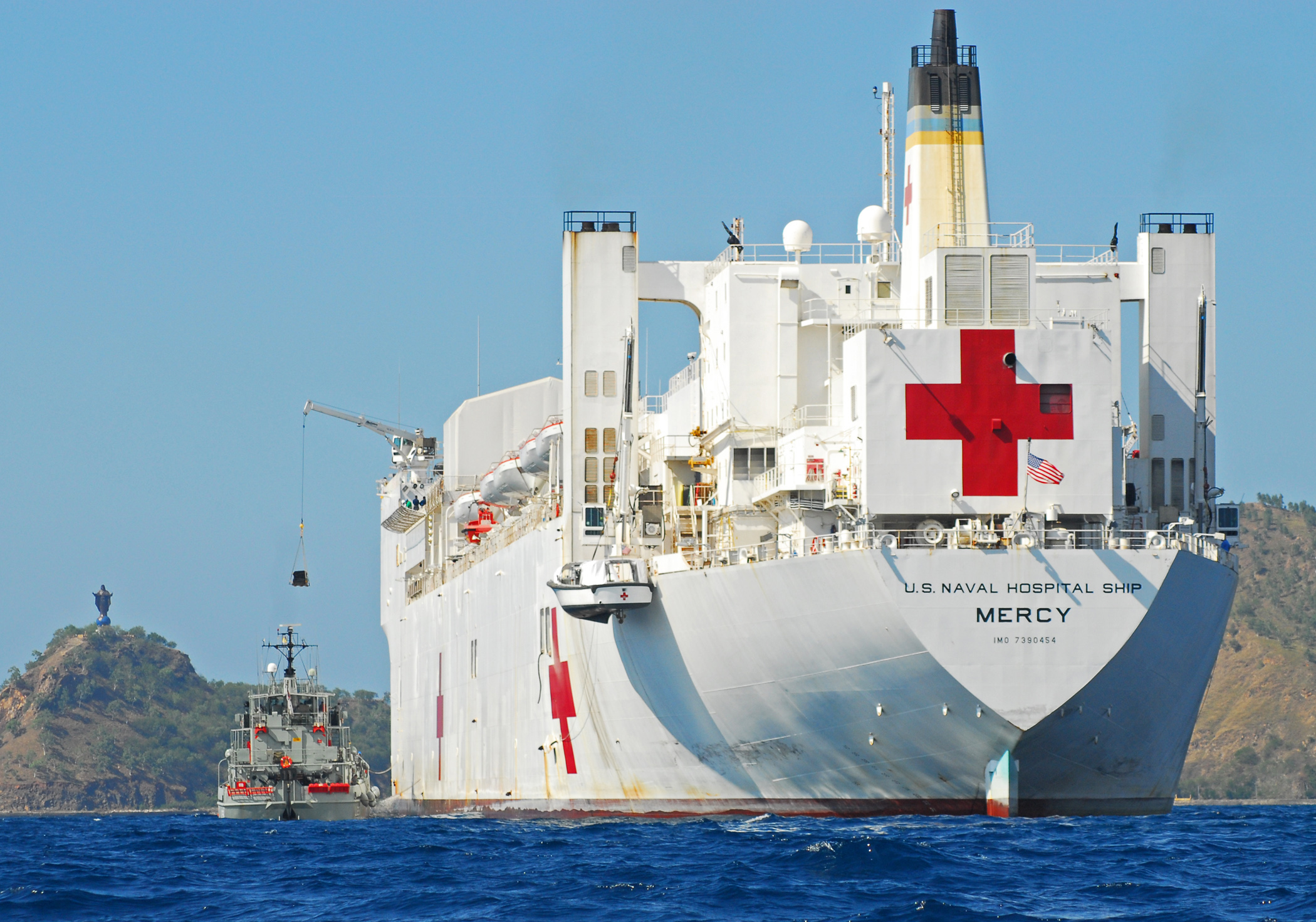 DILI, Timor-Leste (Aug. 11, 2010) The Military Sealift Command hospital ship USNS Mercy (T-AH 19) transfers cargo aboard the Royal Australian Navy heavy landing craft HMAS Labuan (L128) while anchored near Timor-Leste supporting Pacific Partnership 2010. Pacific Partnership is the fifth in a series of annual U.S. Pacific Fleet humanitarian and civic assistance endeavors to strengthen regional partnerships. (U.S. Navy photo by Mass Communication Specialist 2nd Class Eddie Harrison/Released)